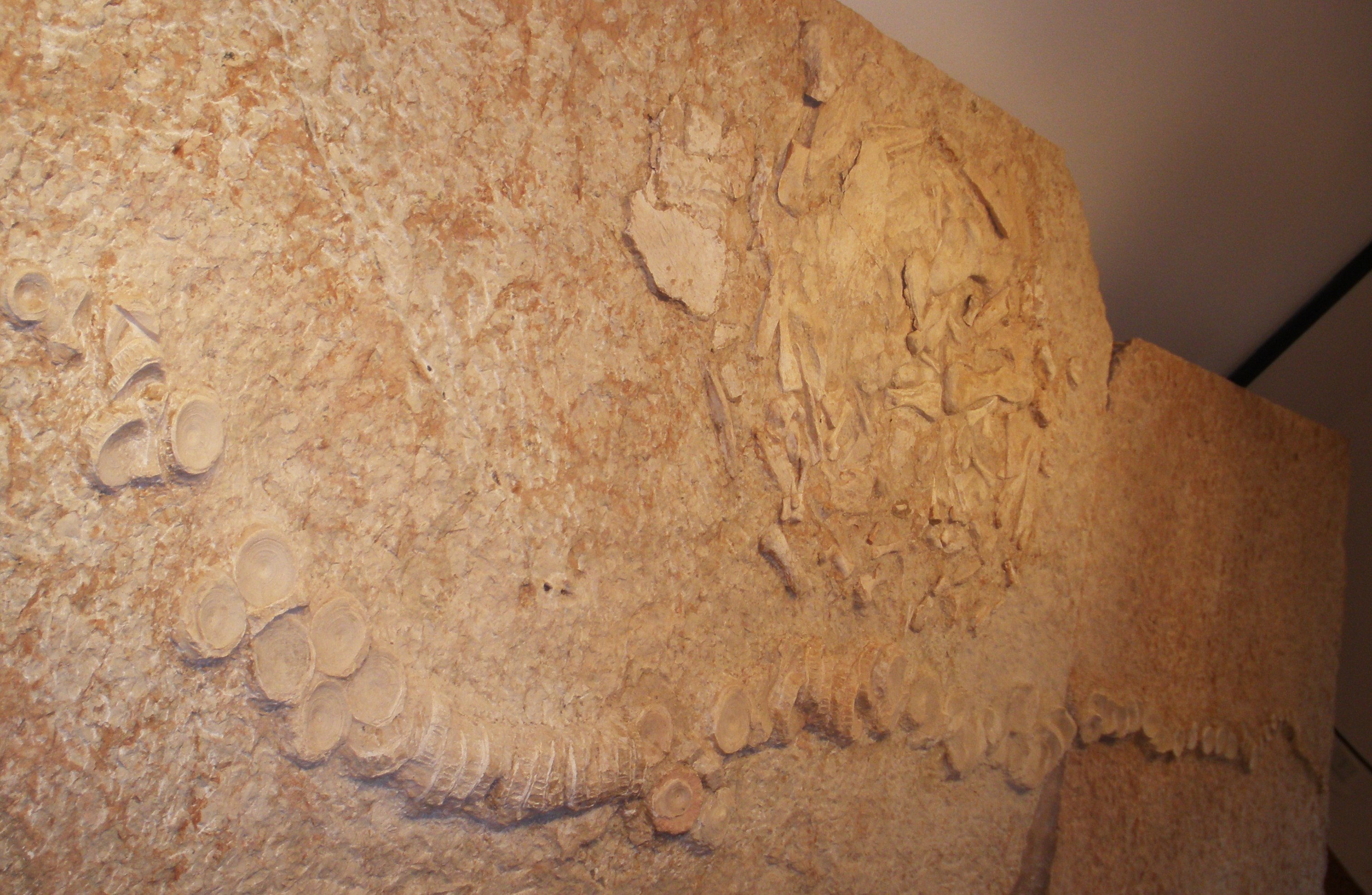 Fossil of shark Cretodus and turtle Protosphargis